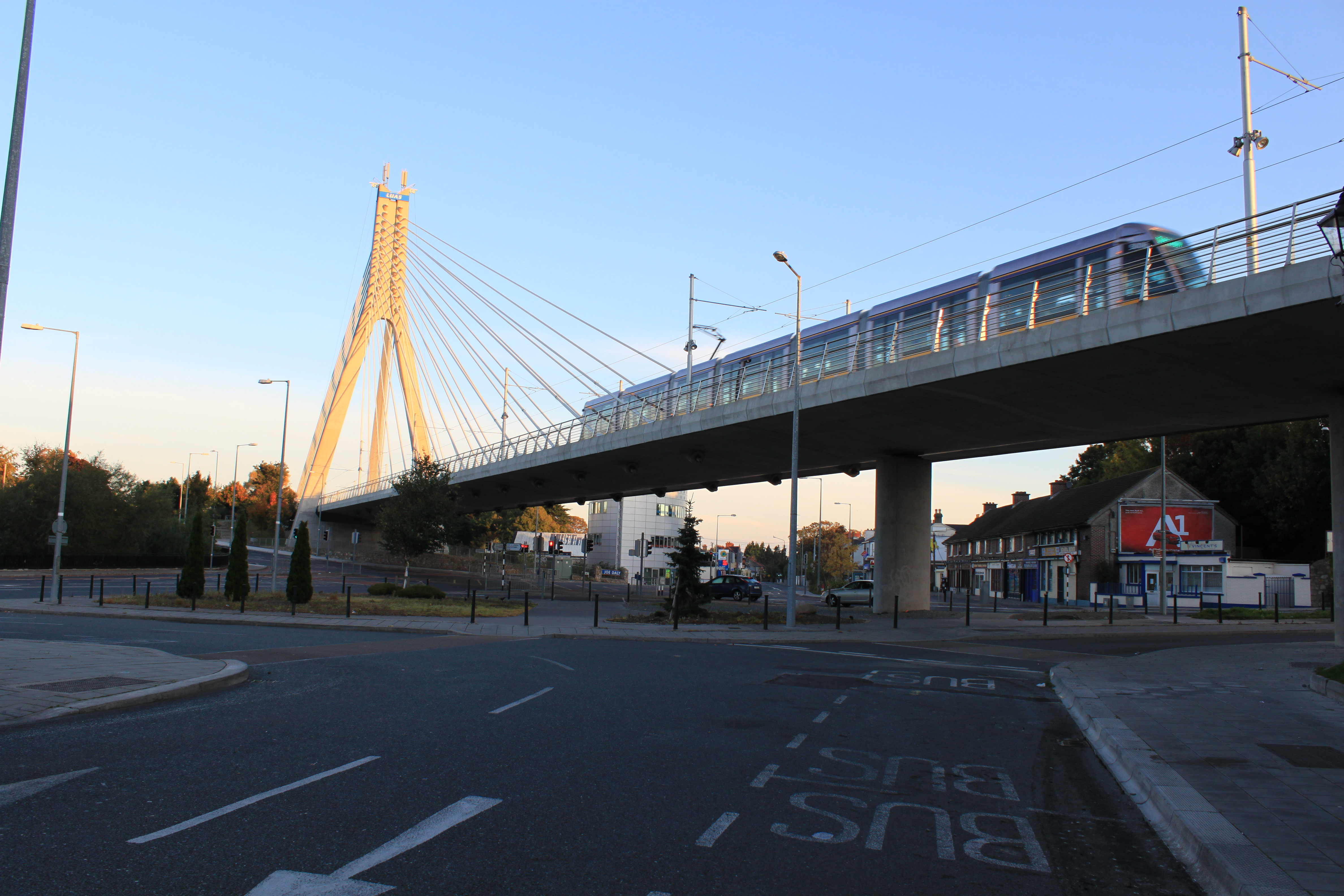 William Dargan Bridge with the Luas crossing it.